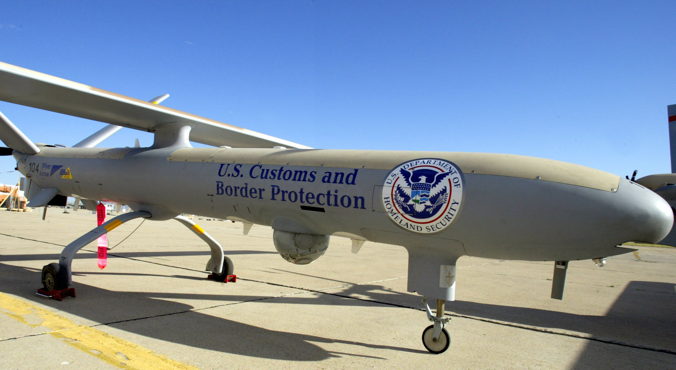 An Hermes 450 Unmanned Aerial Vehicle (UAV) of U.S. Customs and Border Protection.